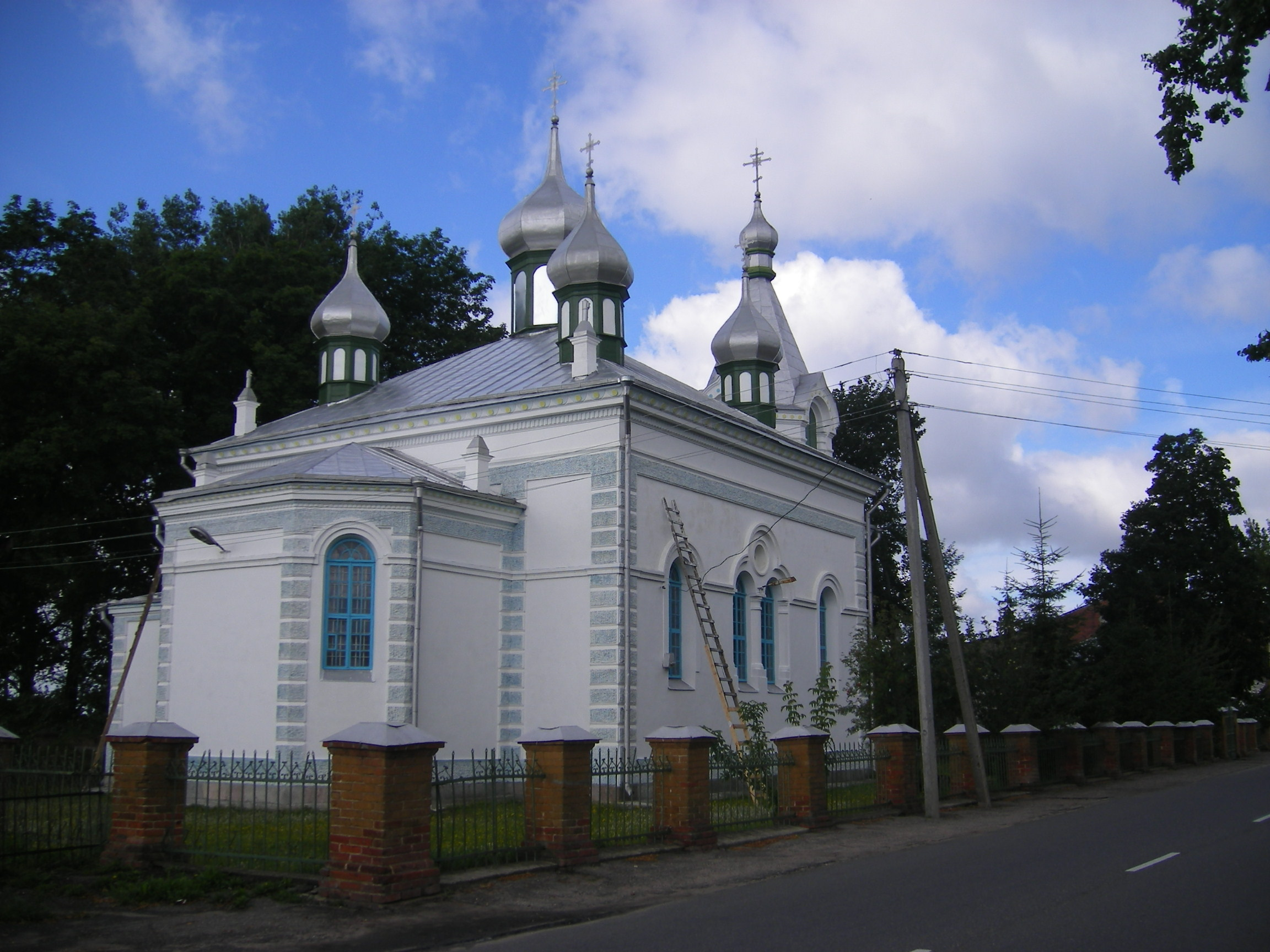 Braslav, Uspenskaya Church